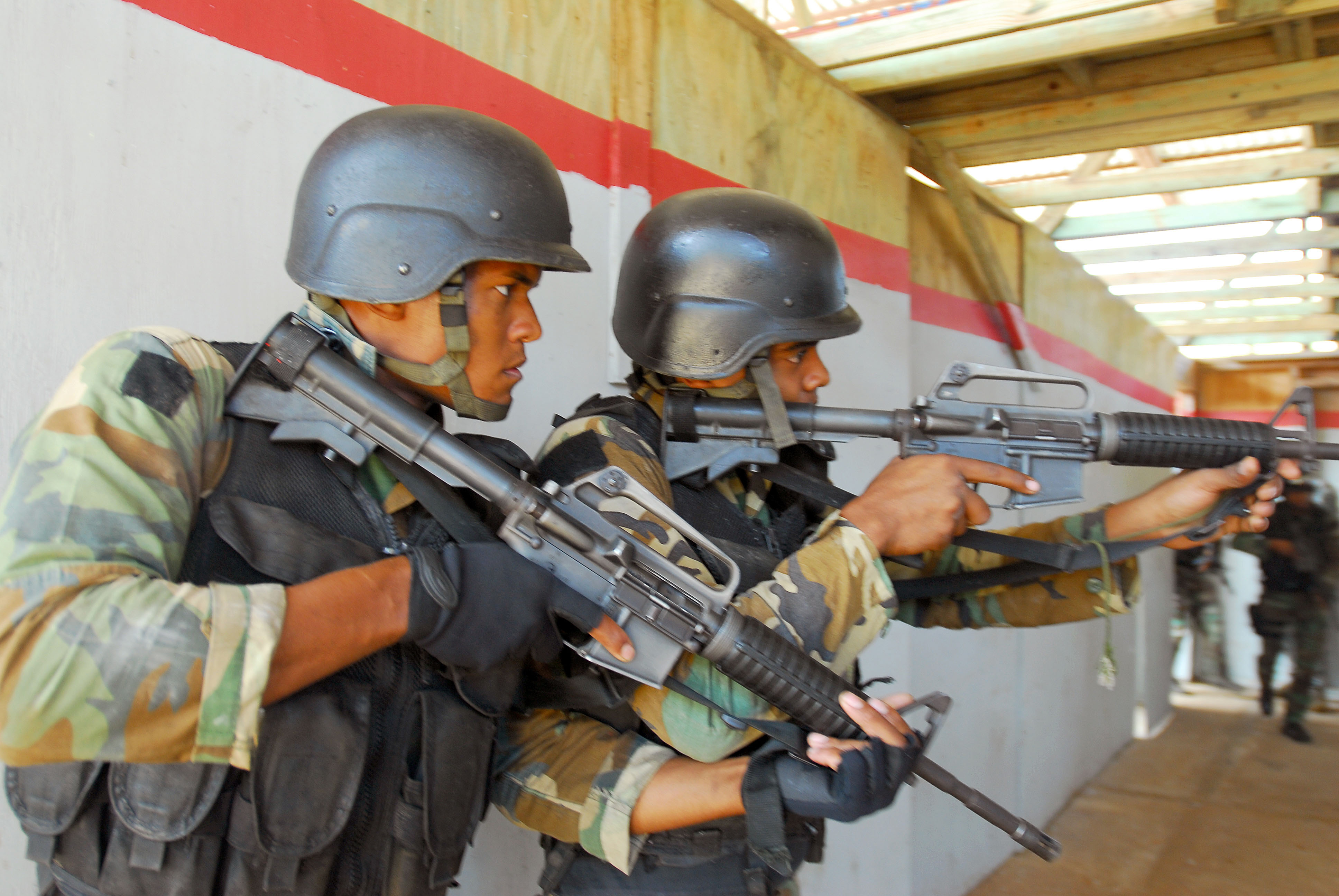 Two commandos assigned to the Ministerio de Estado de las Fuerzas Armadas, known as MEFA, provide security during a close quarter battle training exercise near Santo Domingo, Dominican Republic, March 3. The training was in preparation for Fused Response 2011, a combined U.S. and Dominican military exercise, taking place March 7 - 11, designed to increase the capacity to combat terrorism and illicit trafficking. The commandos have been trained by U.S. Special Forces soldiers.(Photo by Sgt. 1st Class Alex Licea)